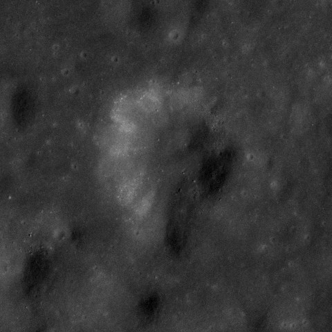 Powell crater, Taurus–Littrow valley, on the moon. Sun elevation 46 deg., spacecraft altitude 112 km.